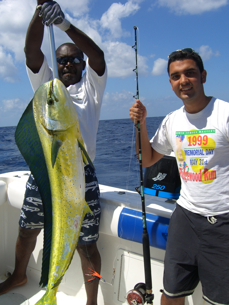 Peter Manarino, Made it myself